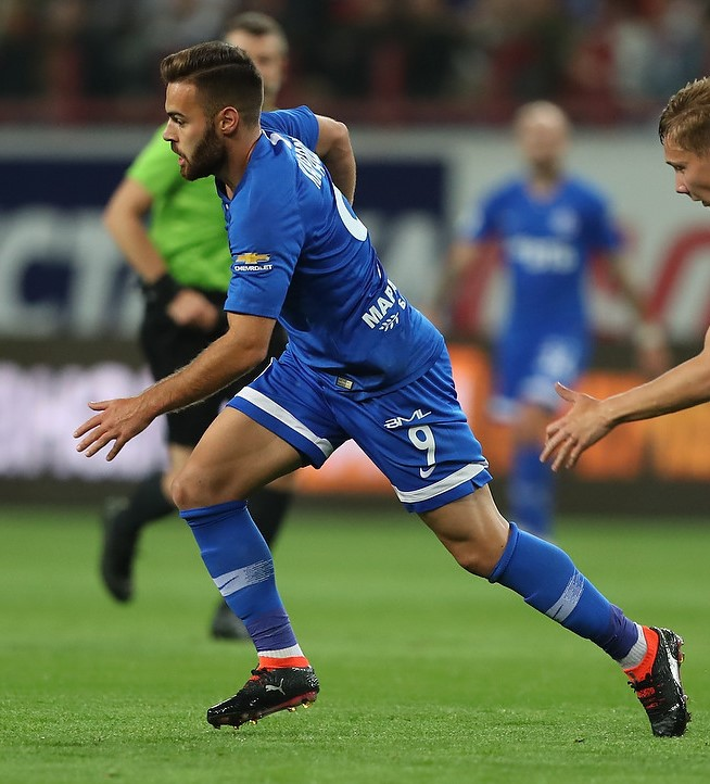 Miguel Filipe Nunes Cardoso